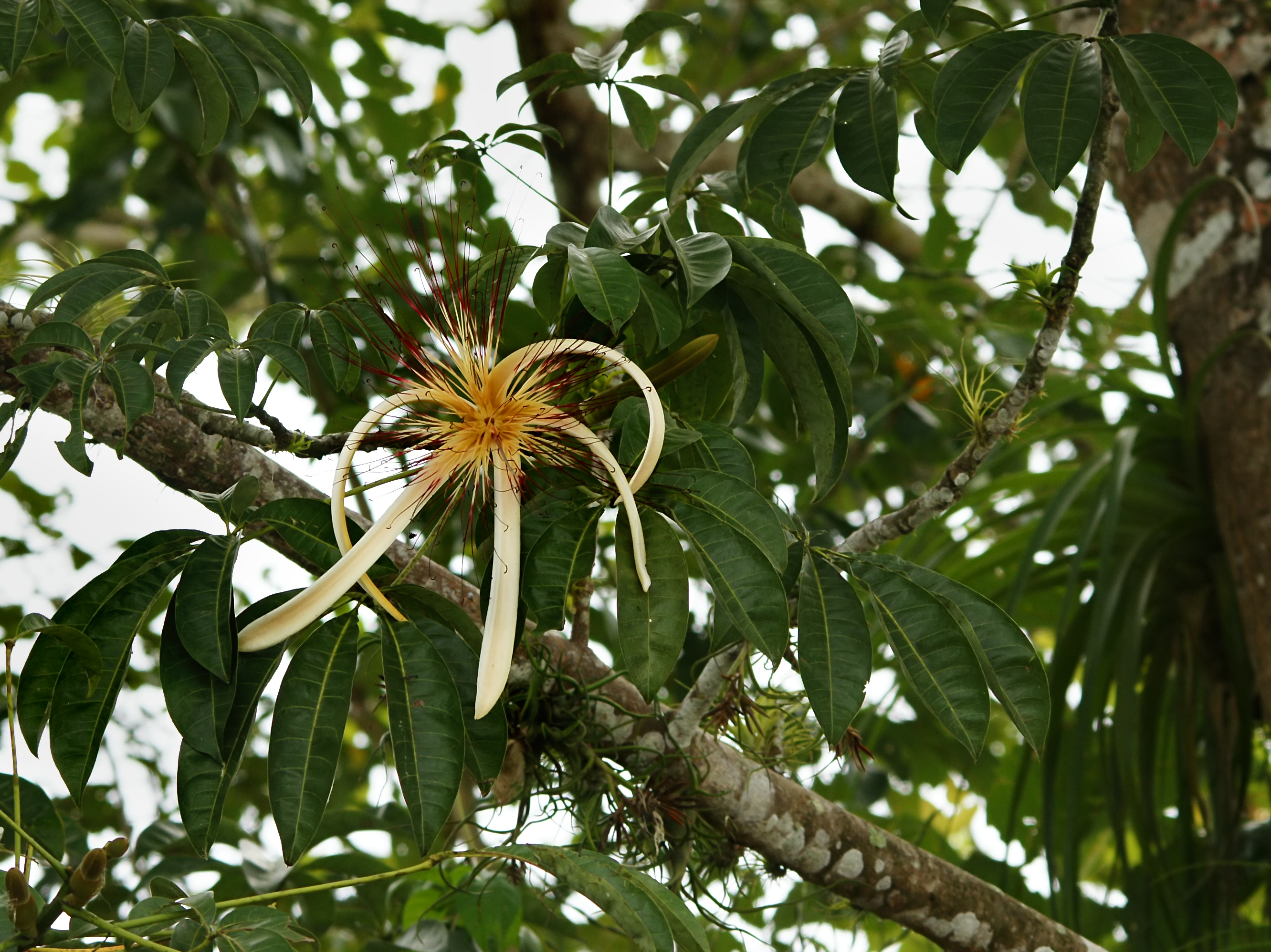 Guiana chestnut at Caño Negro, Costa Rica